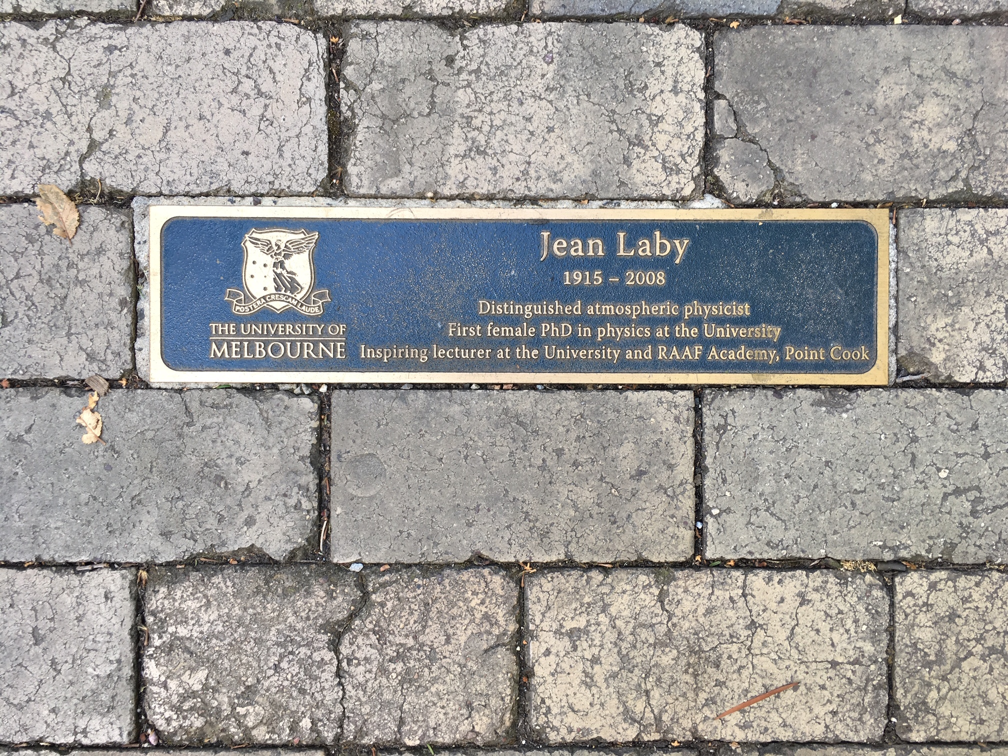 Jean Laby, University of Melbourne Award, Bronze Plaque installed in Professors Walk on the Parkville campus. The award honours 'individuals who have made an outstanding and enduring contribution to the University and its scholarly community'.